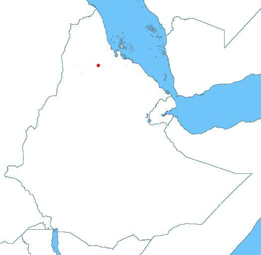 Gundet battle